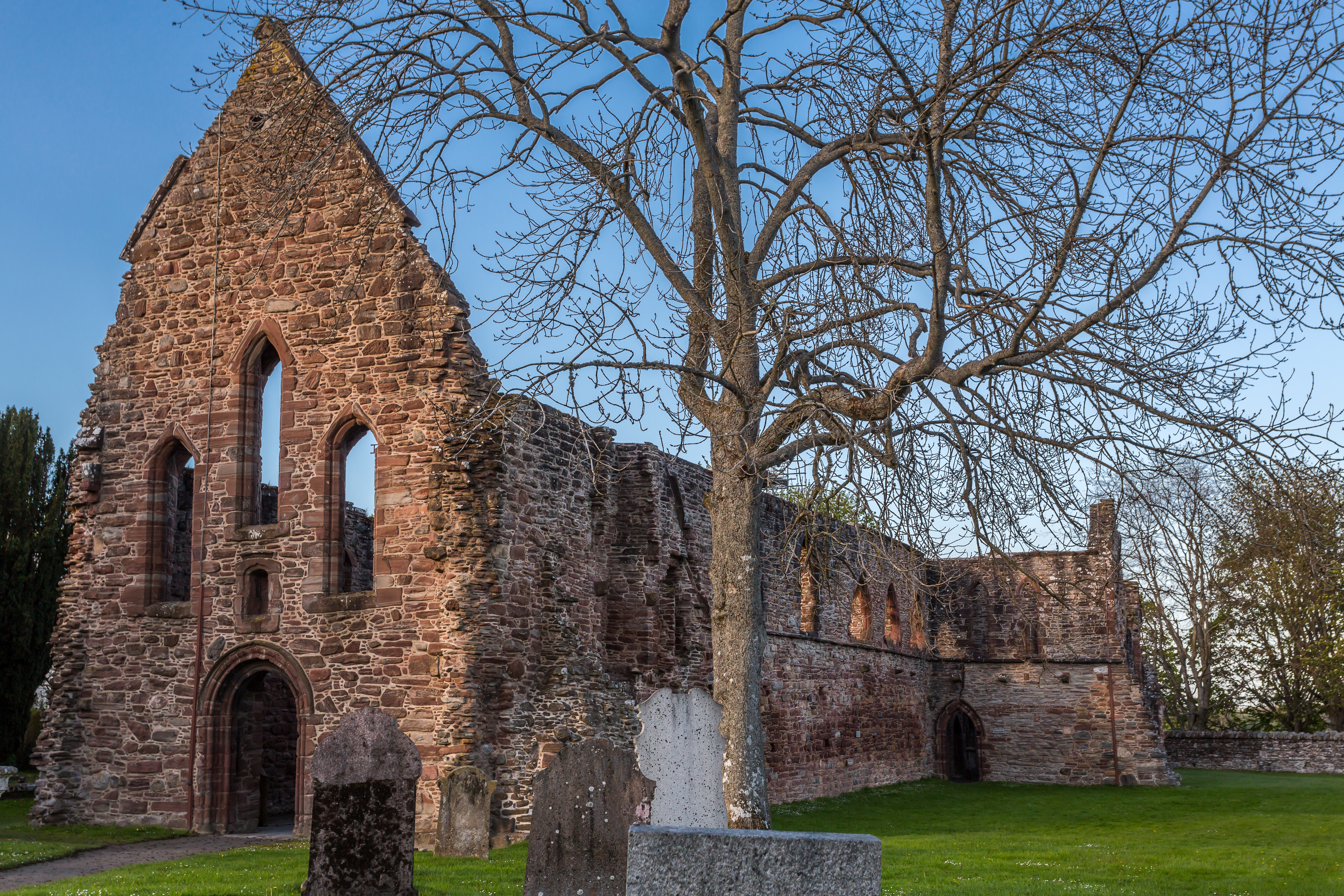 Beauly Priory